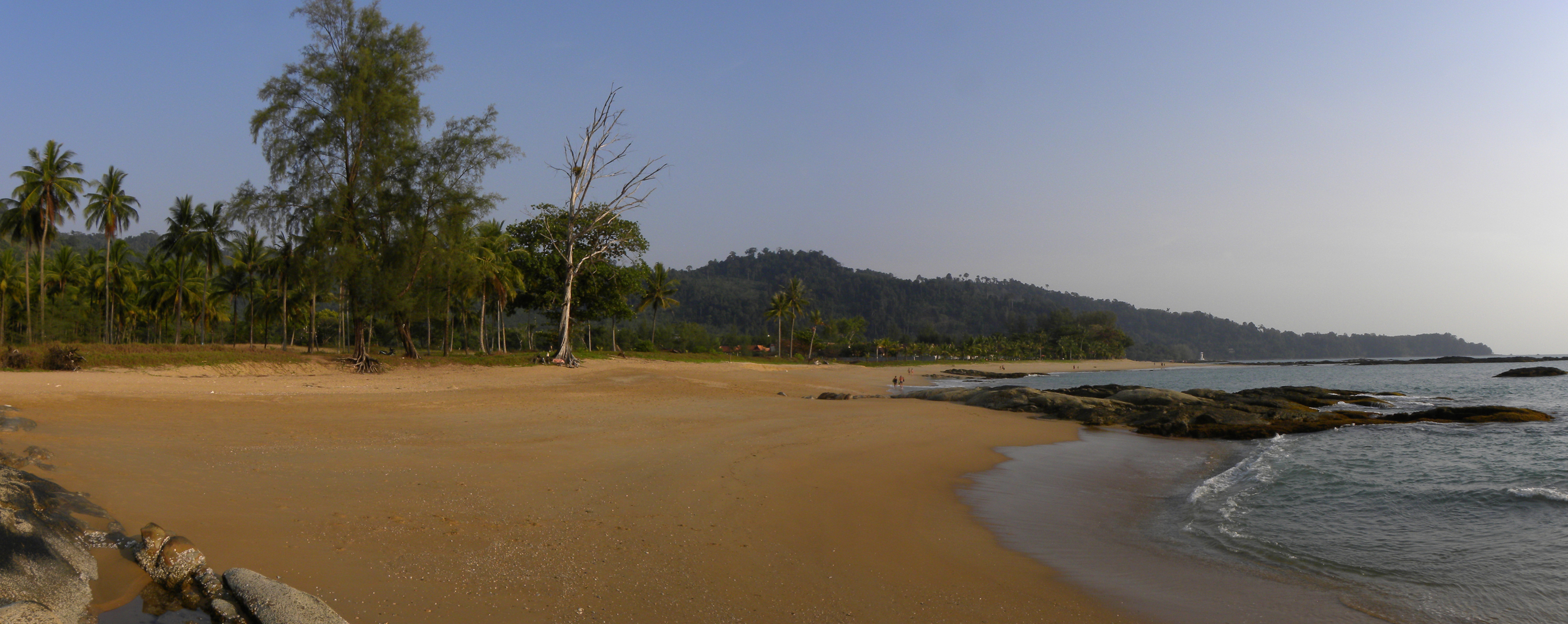 Panorama of Khao Lak's beach